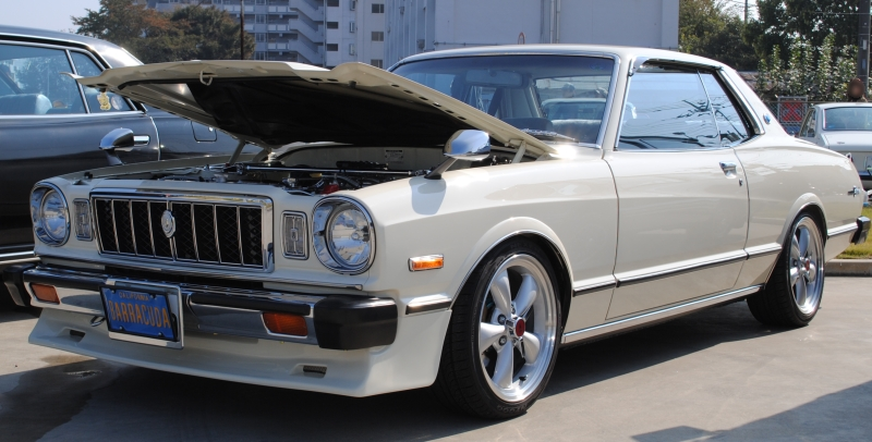 Toyota Corona Mark II.